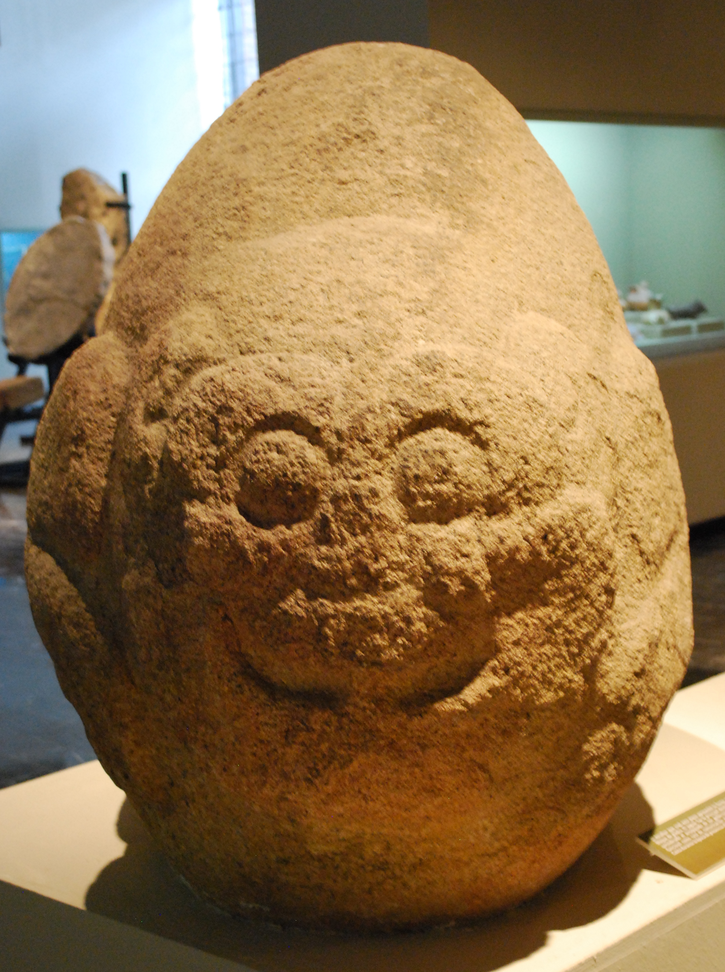 Stone scultped into jaguar shape from Cintalapa, Chiapas from 1000 to 400 BCE. On display at the Regional Museum in Tuxtla Gutierrez, Chiapas, Mexico